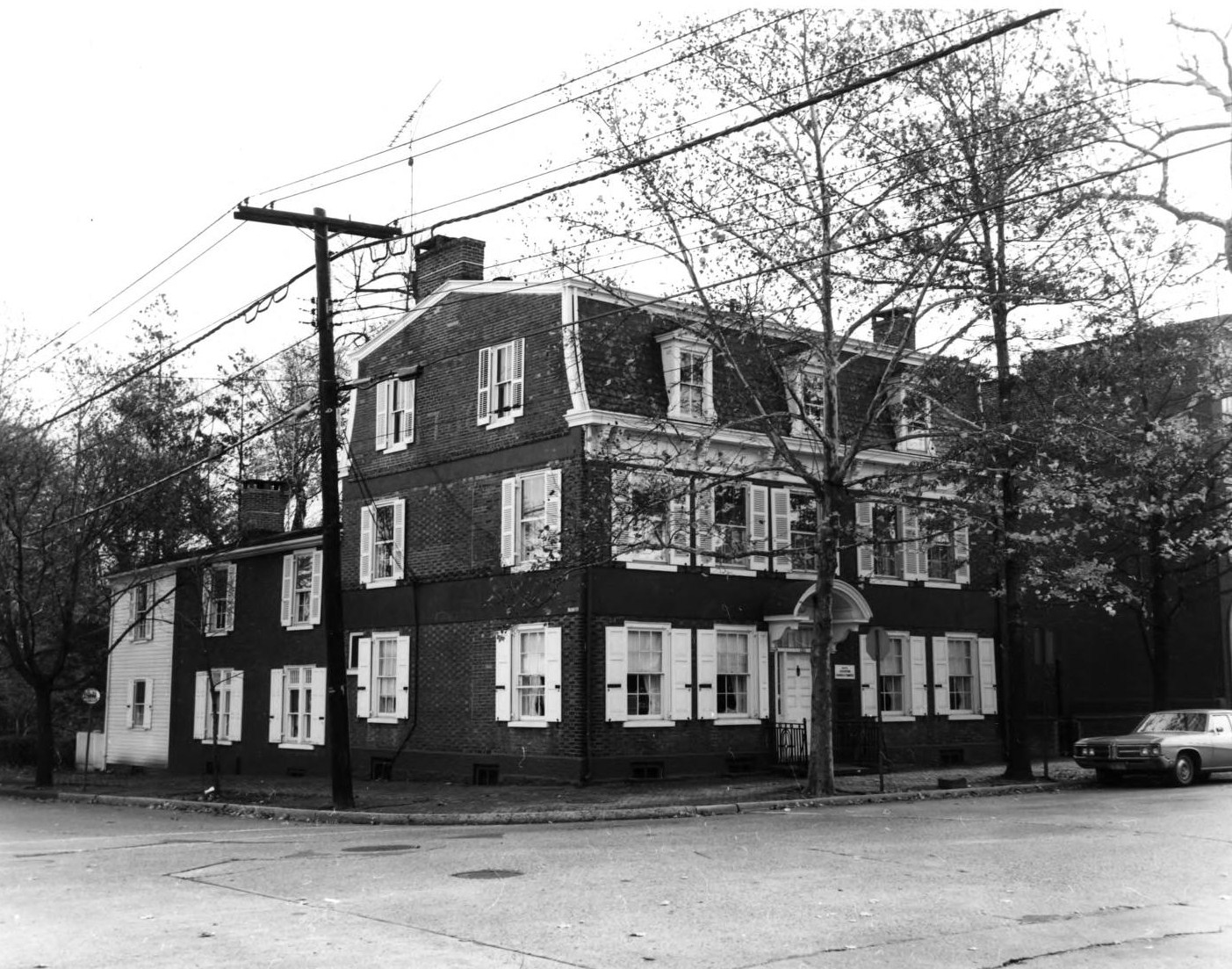 Francis Hopkinson House, Bordenton (Burlington County, New Jersey) cropped This image or media file contains material based on a work of a National Park Service employee, created as part of that person's official duties. As a work of the U.S. federal government, such work is in the public domain. See the NPS website and NPS copyright policy for more information. Object location40° 08′ 54″ N, 74° 42′ 50″ W